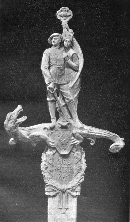 Espada de honor regalada por los tradicionalistas a Don Jaime de Borbón en enero de 1911